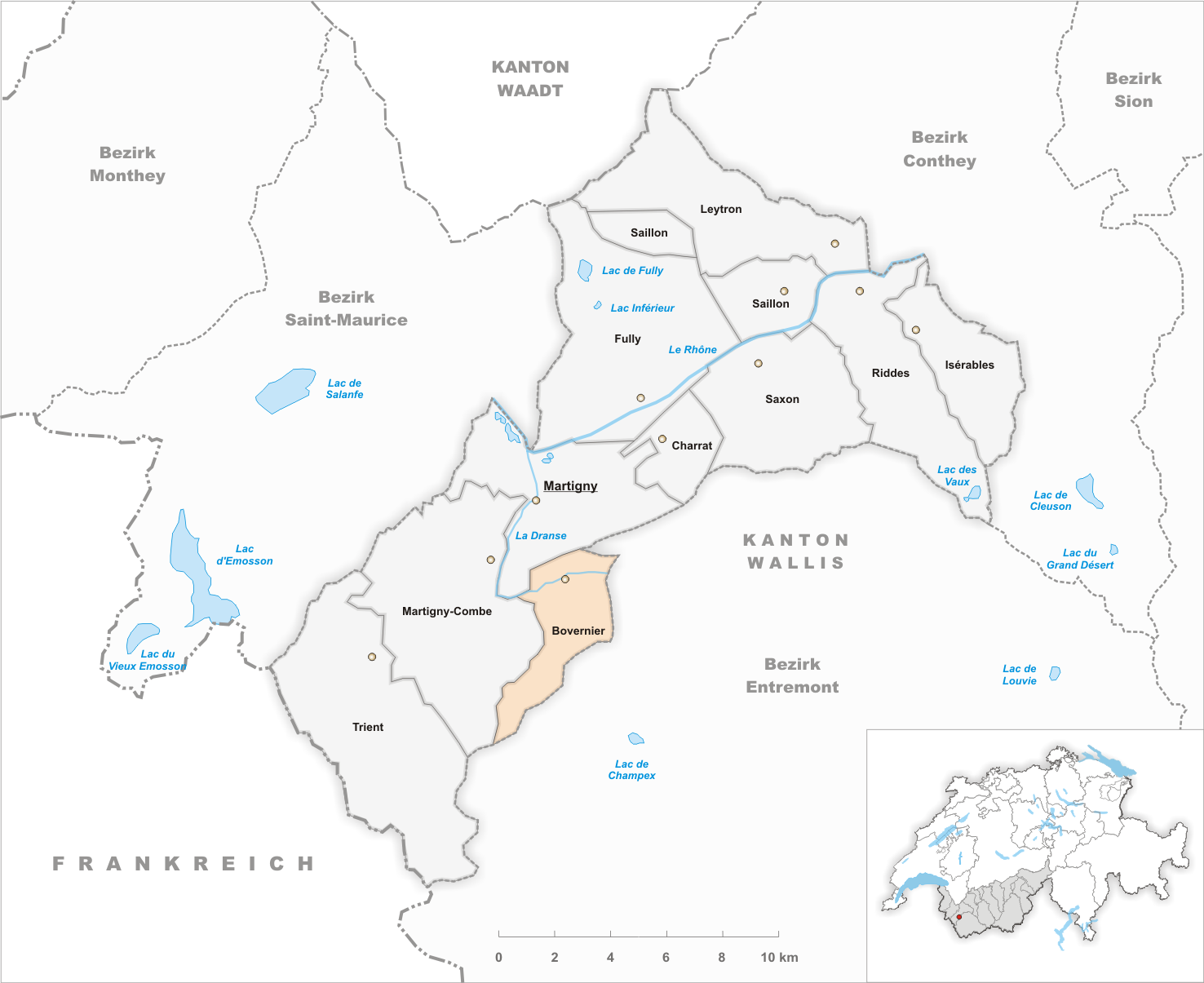 Municipality Bovernier